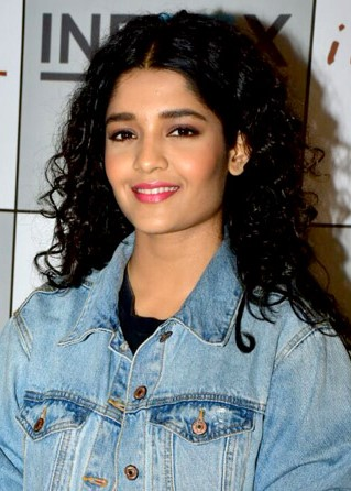 Ritika Singh graces the launch of the short film I Am Sorry.